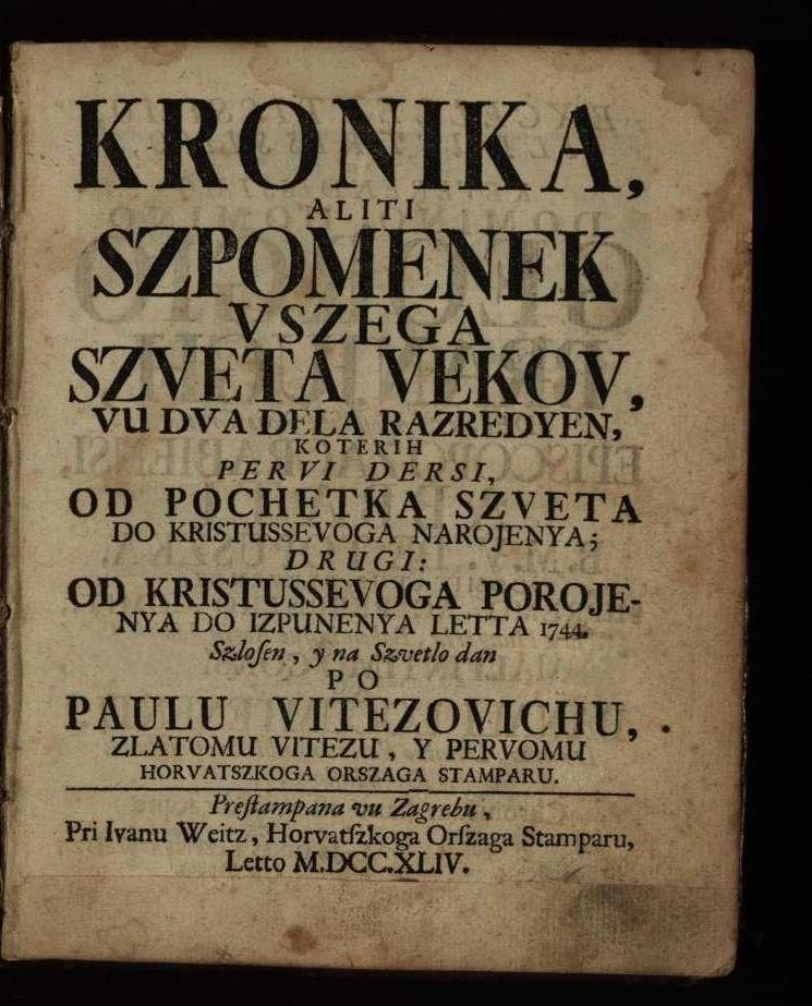 Pavao Ritter Vitezović: Kronika, aliti szpomenek vszega szveta vekov (Chronicle or memorial of every holy age), chronology book in Kajkavian Croatian language from 1744